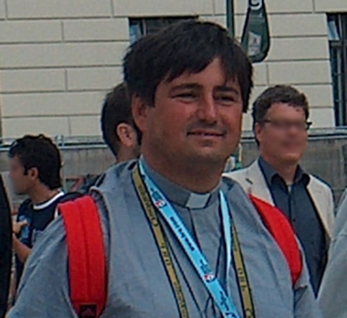 Nicolò Anselmi 2005 in Berlin